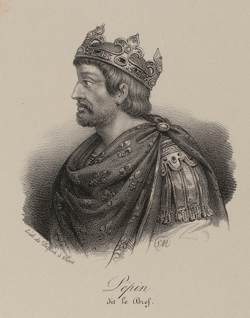 Pepin the Short (c.714 – 768)